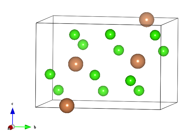 SbCl3 crystal structure drawn using VESTA K. Momma and F. Izumi, "VESTA: a three-dimensional visualization system for electronic and structural analysis." J. Appl. Crystallogr., 41:653-658, 2008.